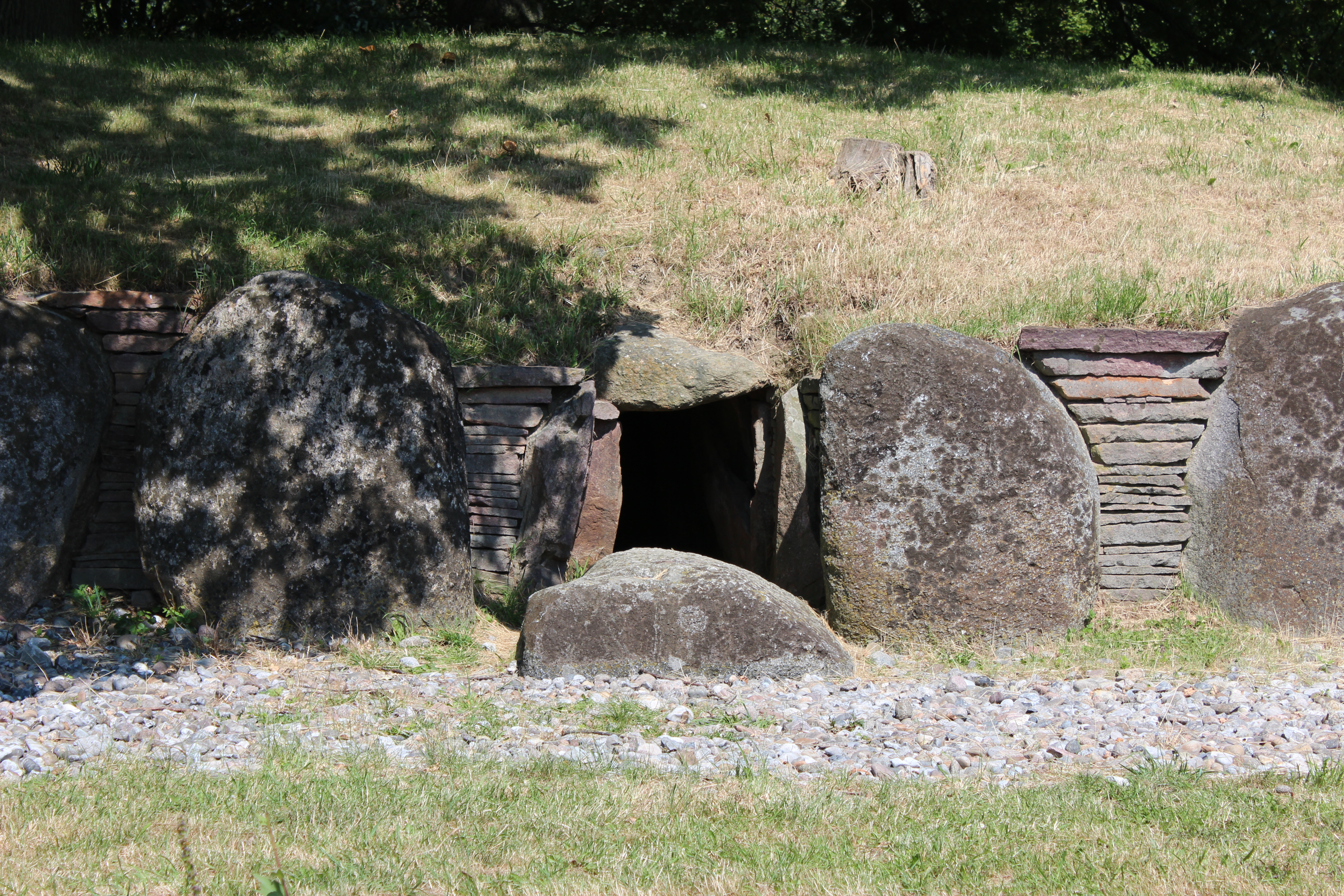 Entrance to Kong Svends Høj (King Sweyn's Mound). Western Lolland, Denmark